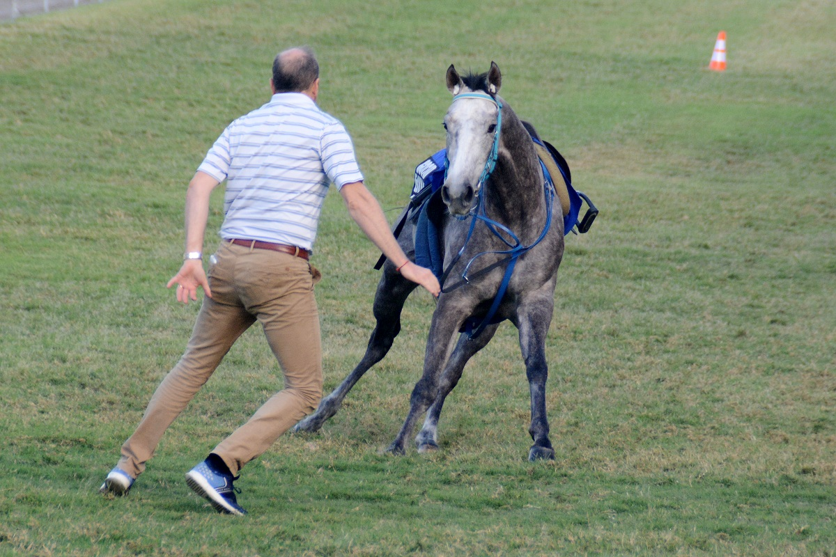 This is an image with the theme "Play" from: Mauritius